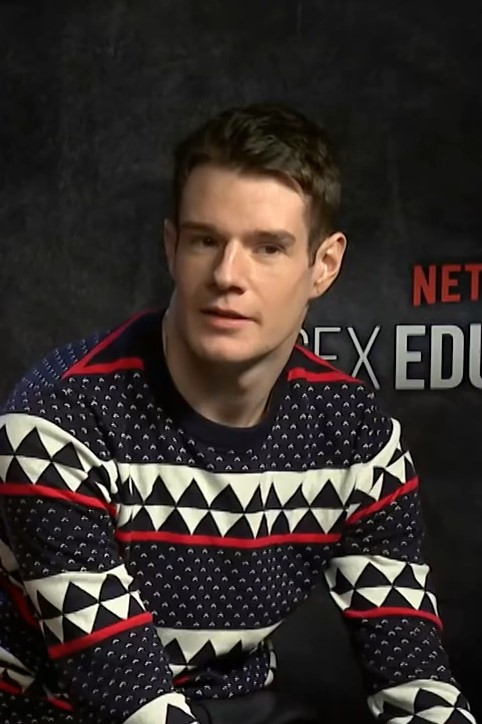 Connor Swindells at an MTV International interview in January 2019